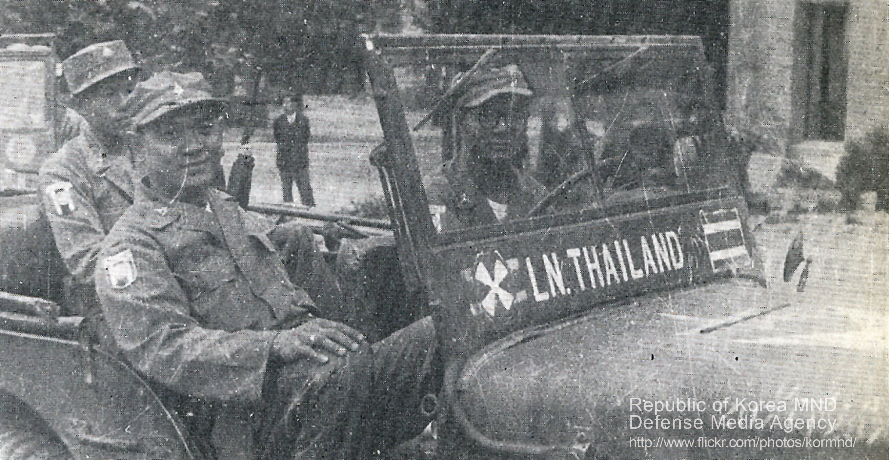 2010 국방화보 Rep. of Korea, Defense Photo Magazine 부산에 도착한 태국군. Thailand soldiers arriving at Busan.